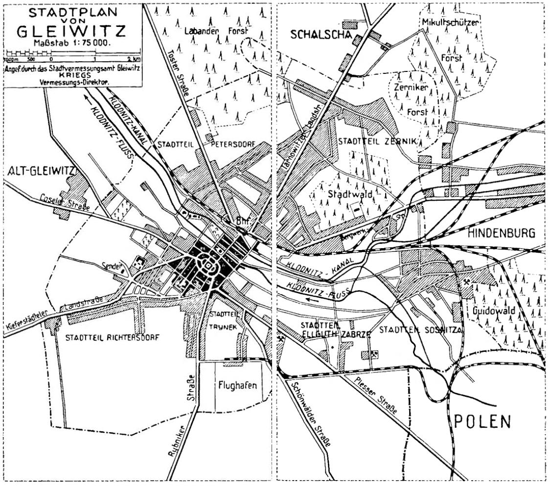 Map of Gleiwitz, 1929